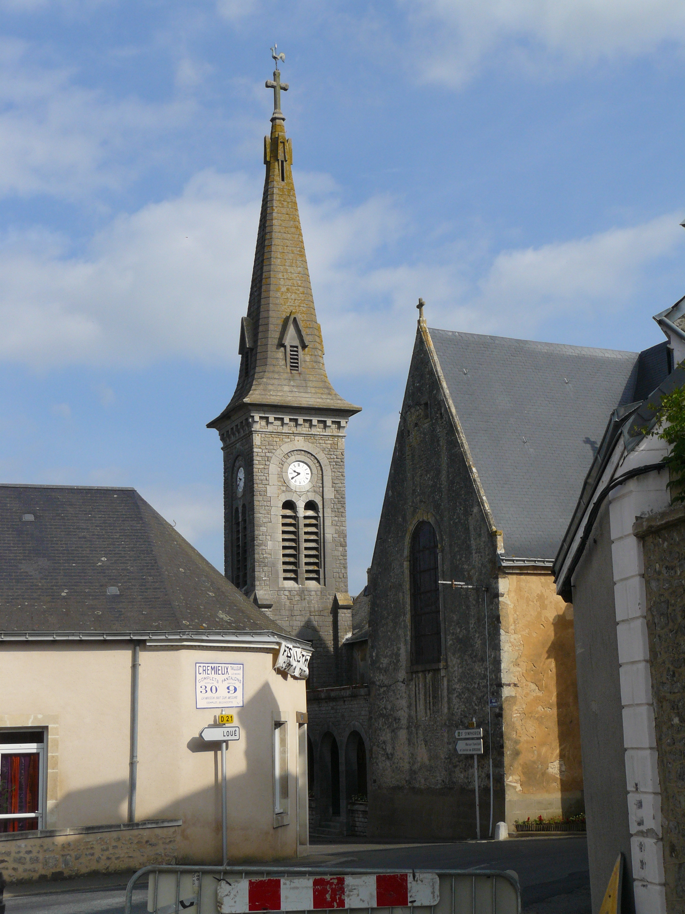 Eglise de Bernay-en-Champagne (France, Pays de la Loire)